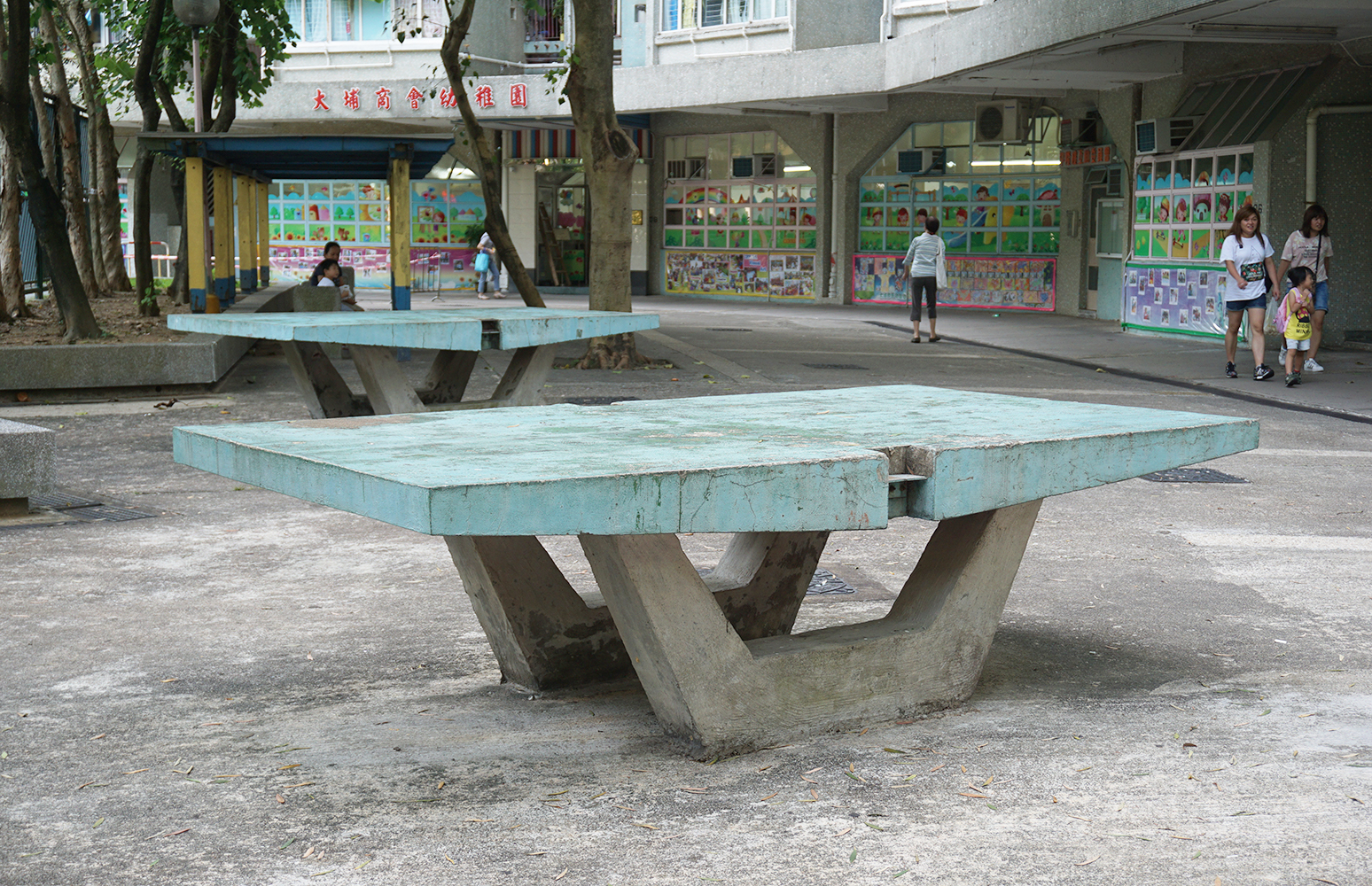 Fu Heng Estate in Tai Po, Hong Kong.